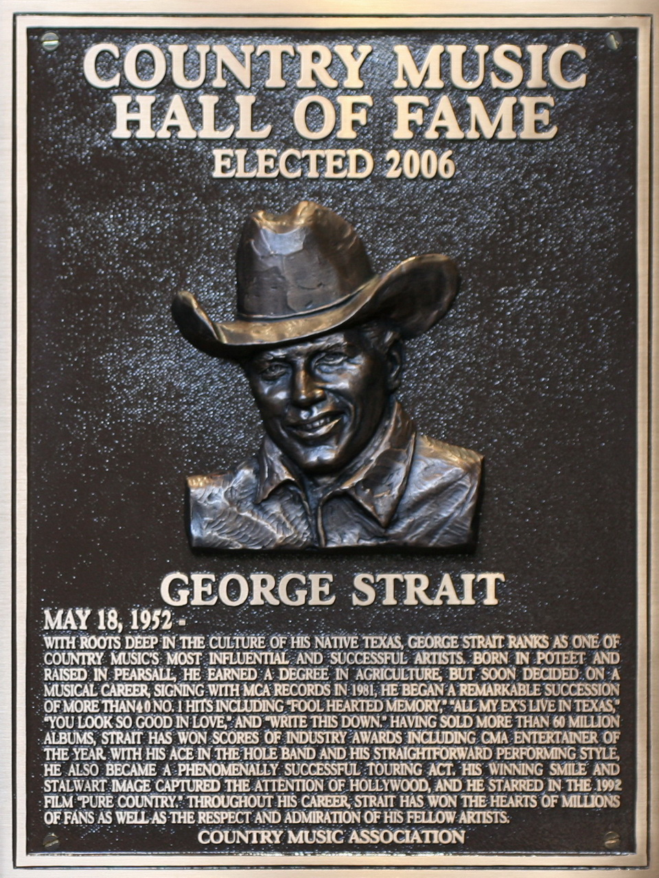 Since appearing on the country scene in 1981, George Strait’s name has become synonymous with “real country.” His unadorned Texas rancher’s clothes—cowboy hat, western shirt, and blue jeans—have been copied by a legion of young “hat acts.” Strait’s albums have been certified either gold, platinum, or multi-platinum, and he remains a huge concert draw. Much of modern country music includes pop sounds, but Strait consistently draws from both the western swing and the honky-tonk traditions of his native Texas.